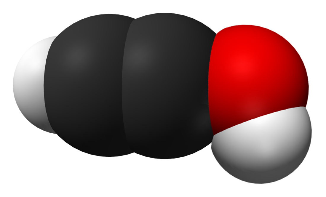 Ethynol molecule model